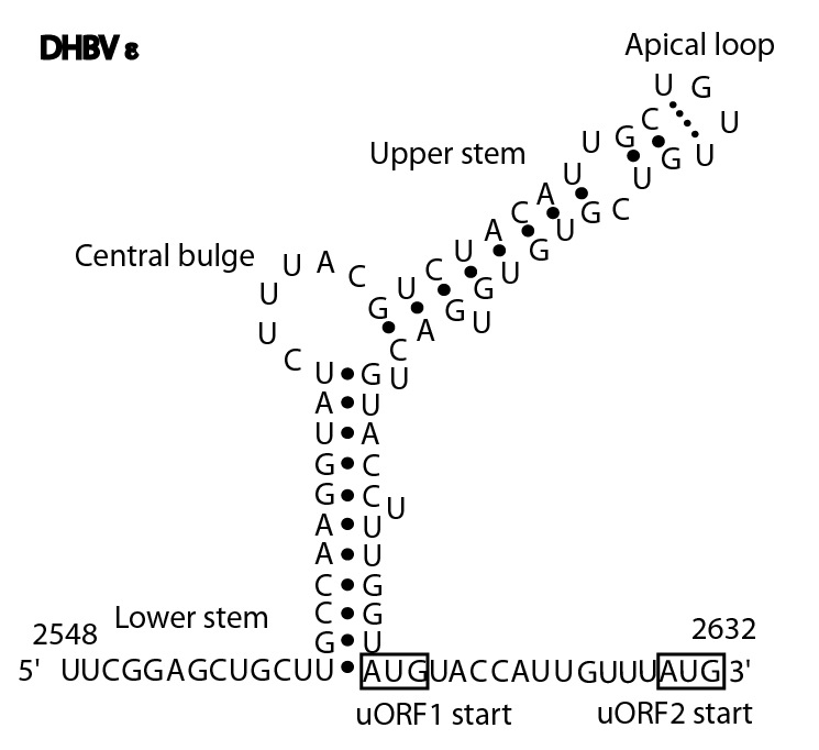 RNA structural diagram of the Epsilon structure from Duck HBV (DHBV)